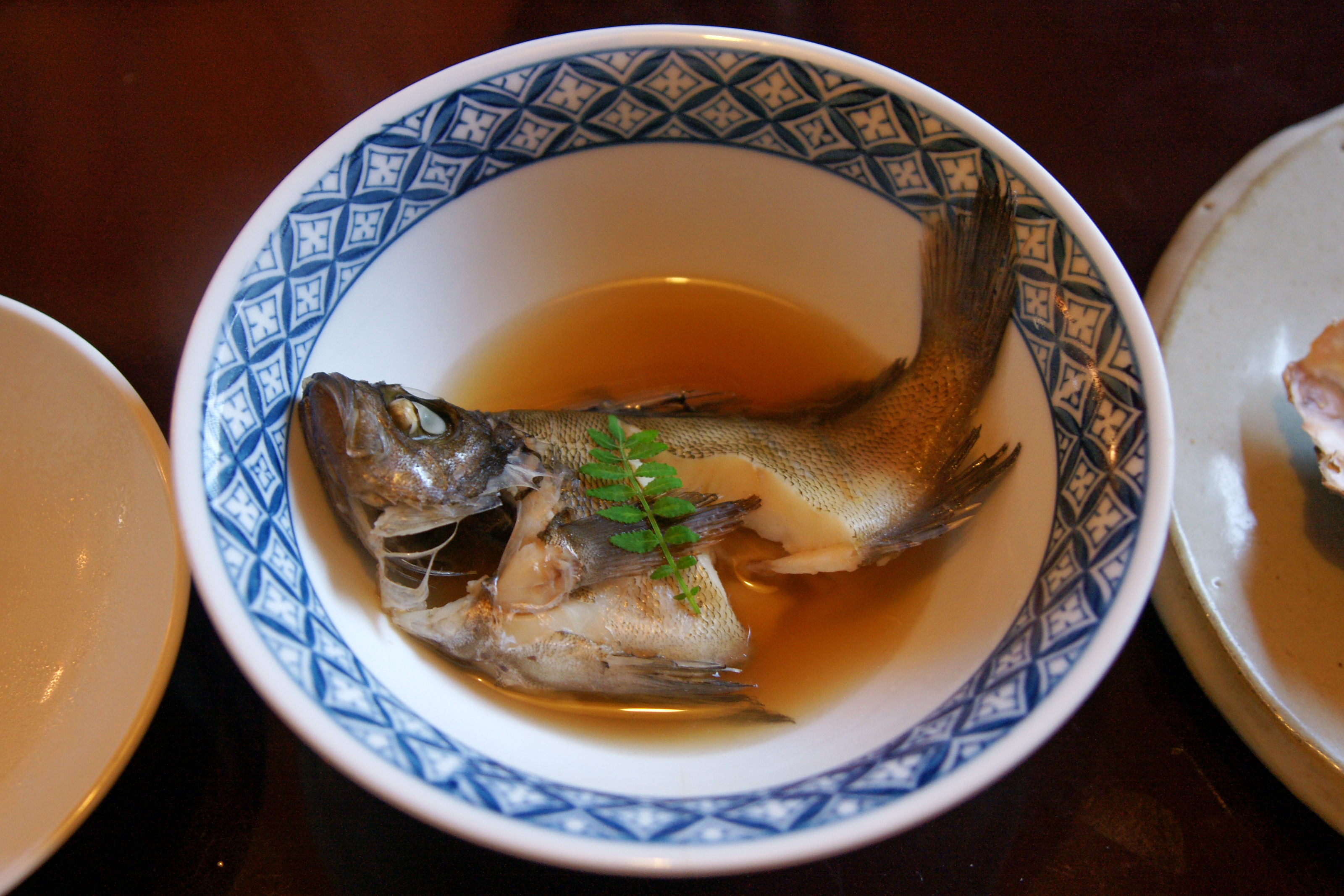 at Murotsu in Tatsuno, Hyogo prefecture, Japan